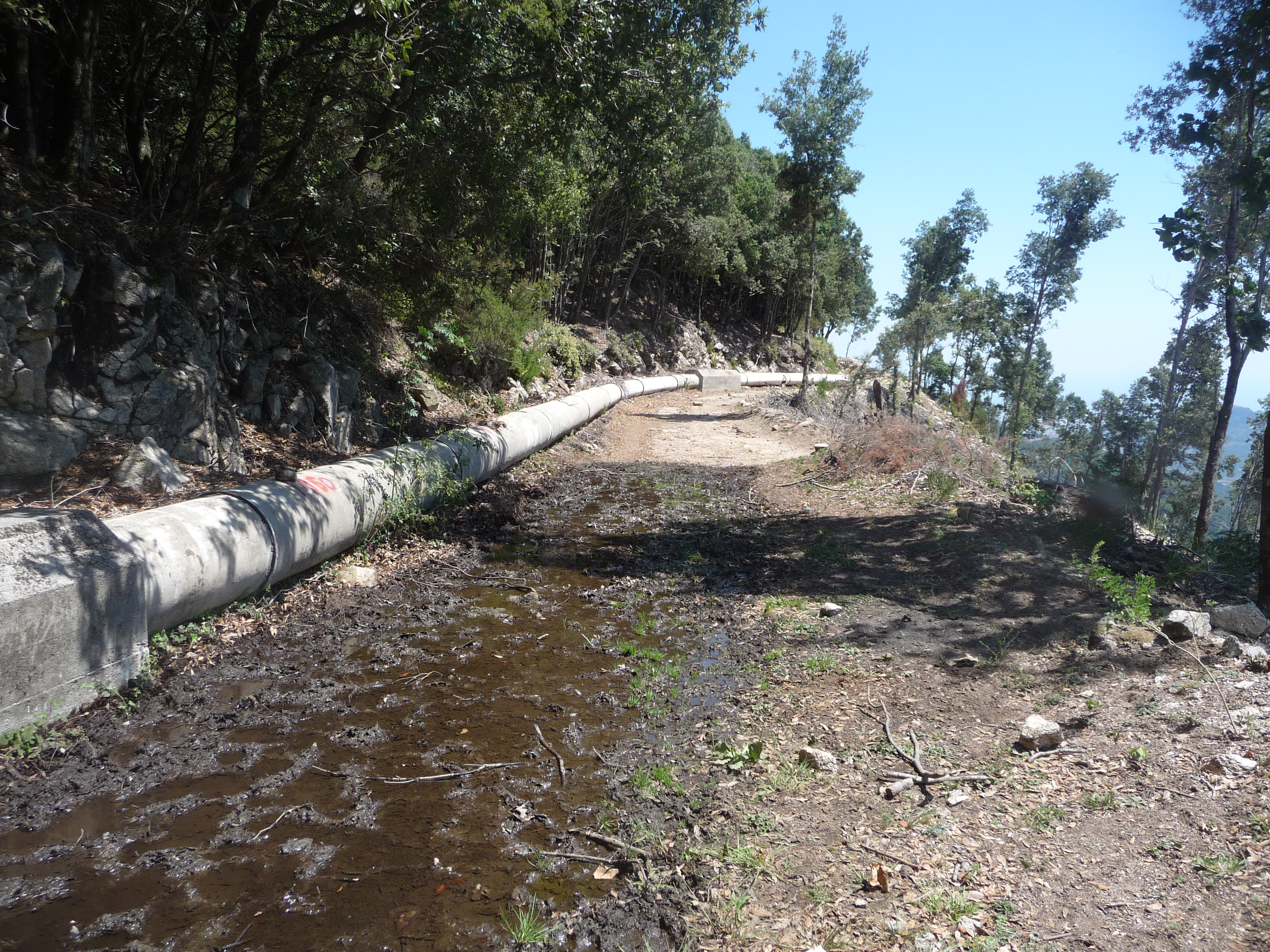 Pipes of Hydroelectric powerplant Marmarico in Bivongi (Italy)